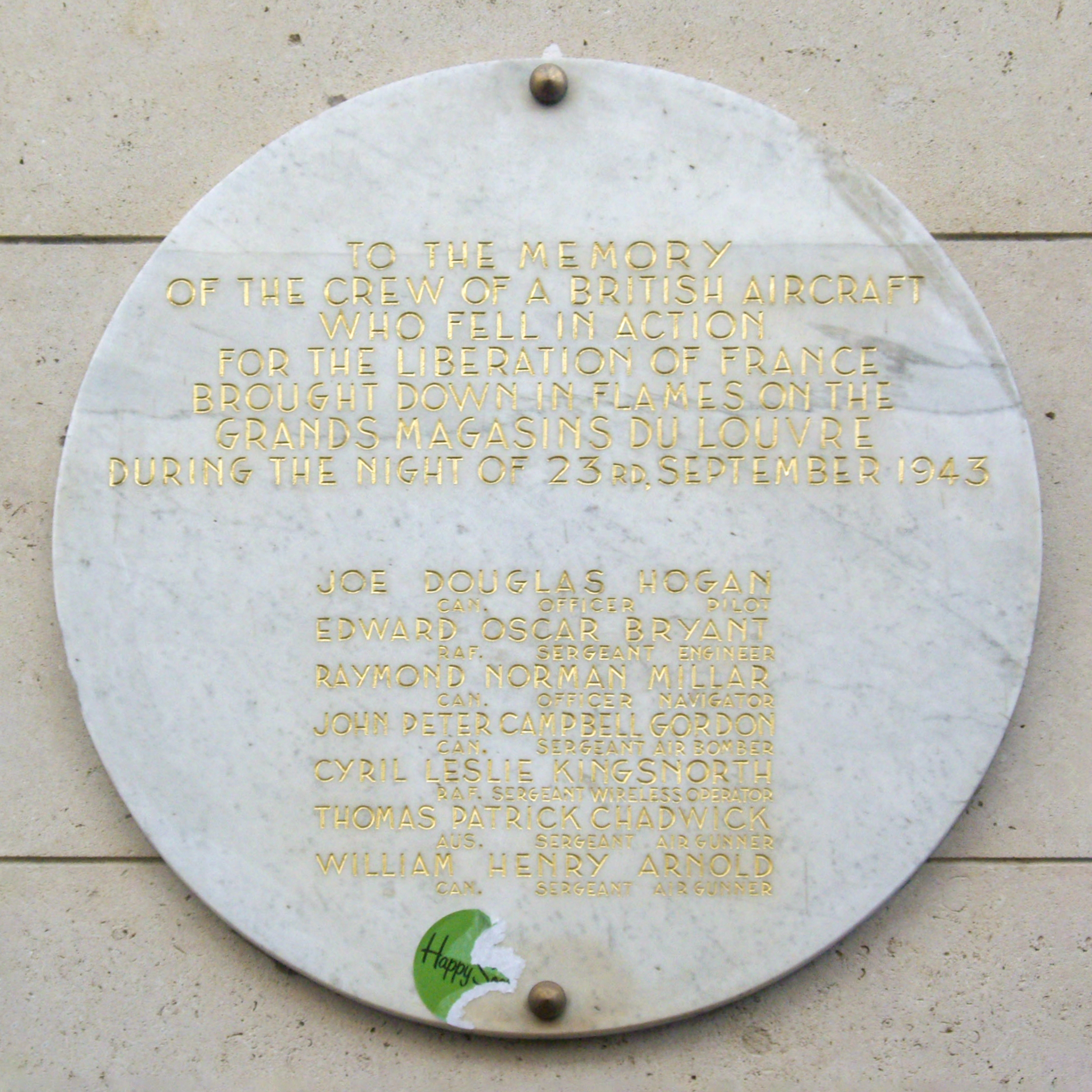 Commemorative plaque, 151 bis Rue Saint-Honoré, Paris 1st."To the memory of the crew of a British aircraft who fell in action for the liberation of France, brought down in flames on the Grands Magasins du Louvre during the night of 23rd September 1943: Joe Douglas Hogan, Can. Officer Pilot; Edward Oscar Bryant, RAF Sergeant Engineer; Raymond Norman Millar, Can. Officer Navigator; John Peter Campbell Gordon, Can. Sergeant Air Bomber; Cyril Leslie Kingsnorth, RAF Sergeant Wireless Operator; Thomas Patrick Chadwick, Aus. Sergeant Air Gunner; William Henry Arnold, Can. Sergeant Air Gunner."